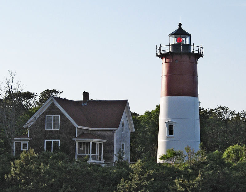 Photo of Nauset Light taken by me (cholmes75).